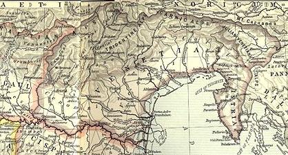 From File:Shepherd Map of Ancient Italy, Northern Part.jpg, file with expired copyright Vèneto: Da File:Shepherd Map of Ancient Italy, Northern Part.jpg che gà el copyright scaduo